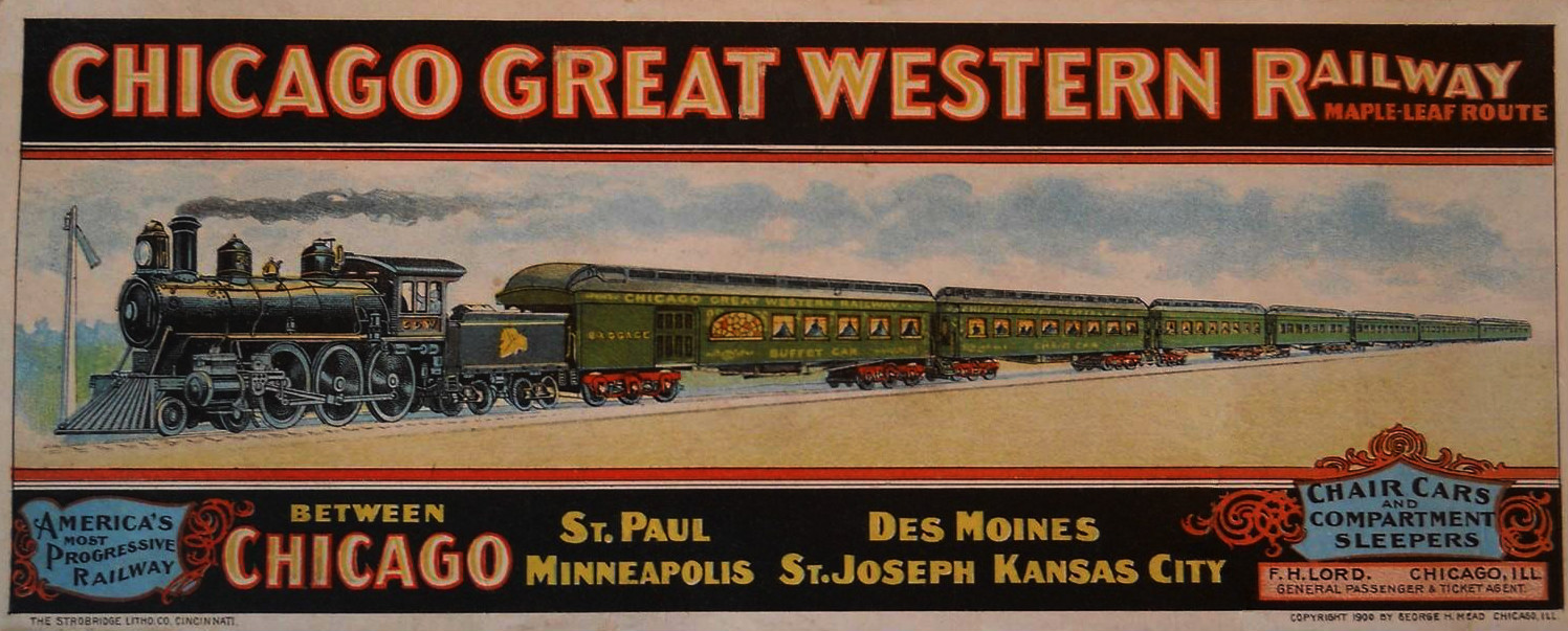 Advertising blotter for the Chicago Great Western Railroad's passenger trains.